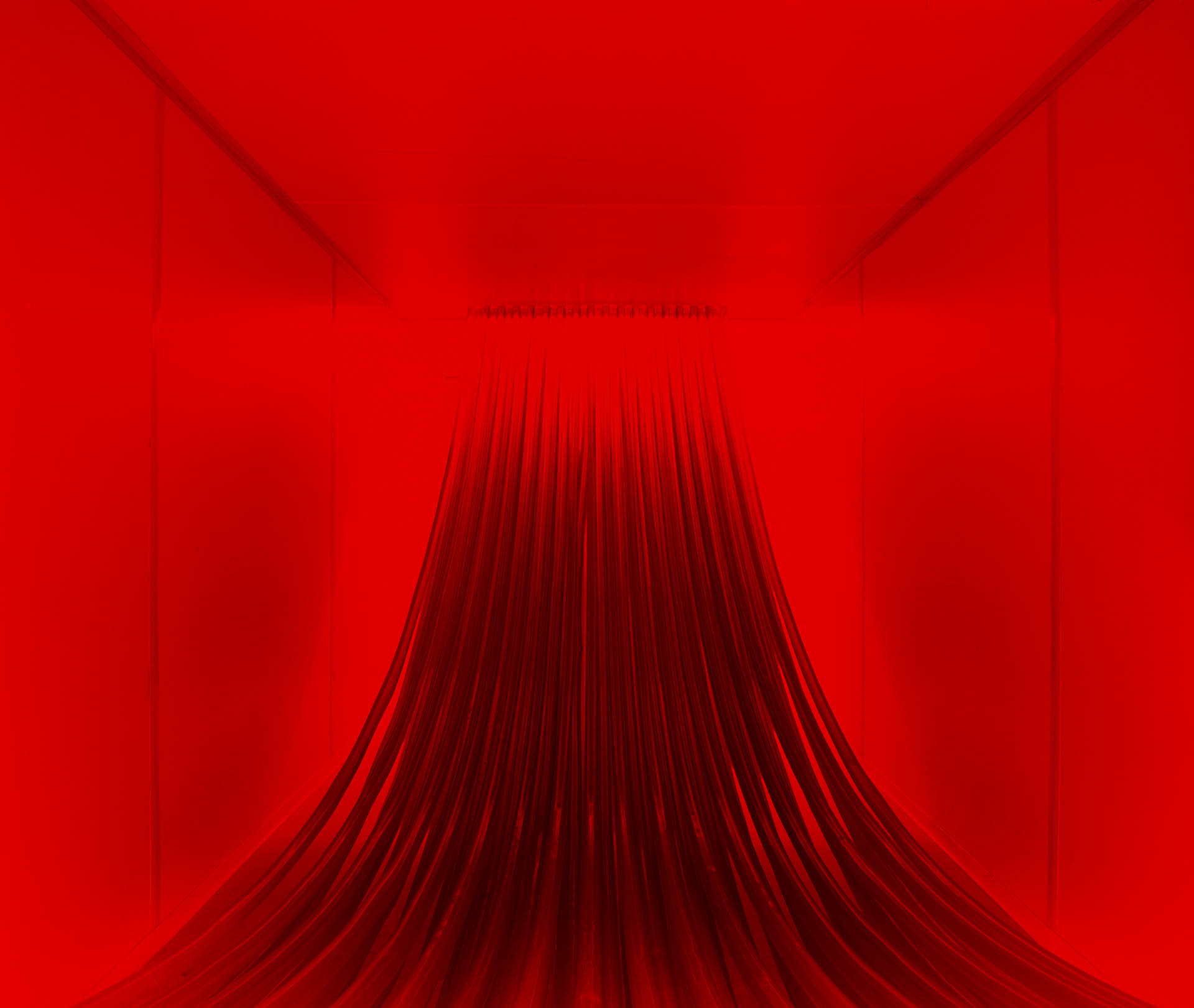 Artist: Birgitta Weimer, "Transfusion", Ausstellungsprojekt "Brueckengang"